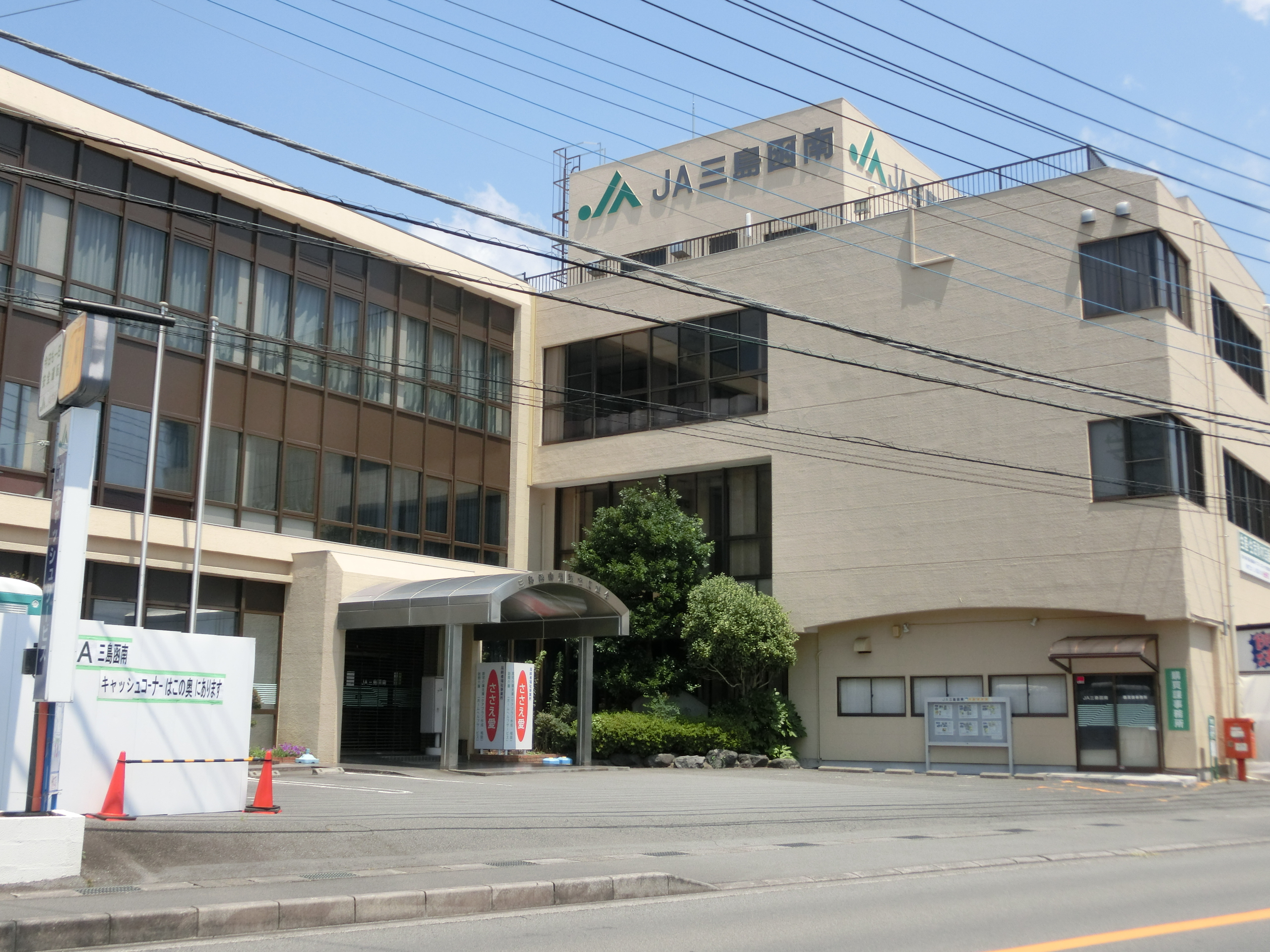 JA Mishima-Kannami Headquarters